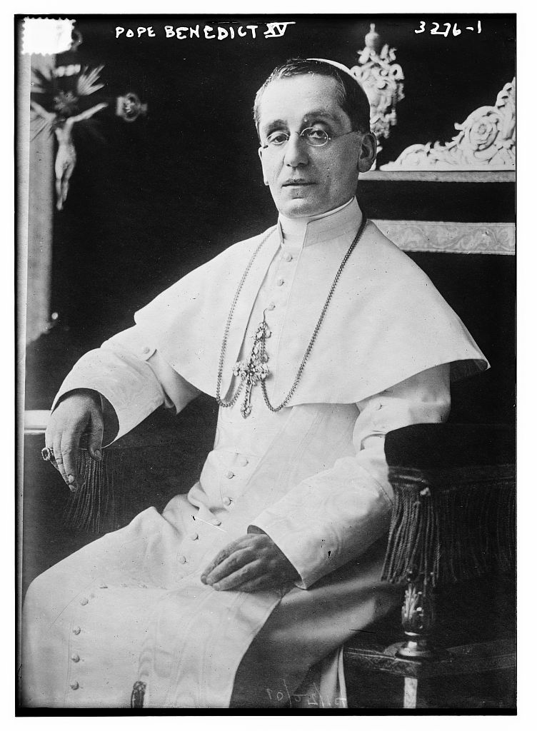 Portrait of Pope Benedict XV.